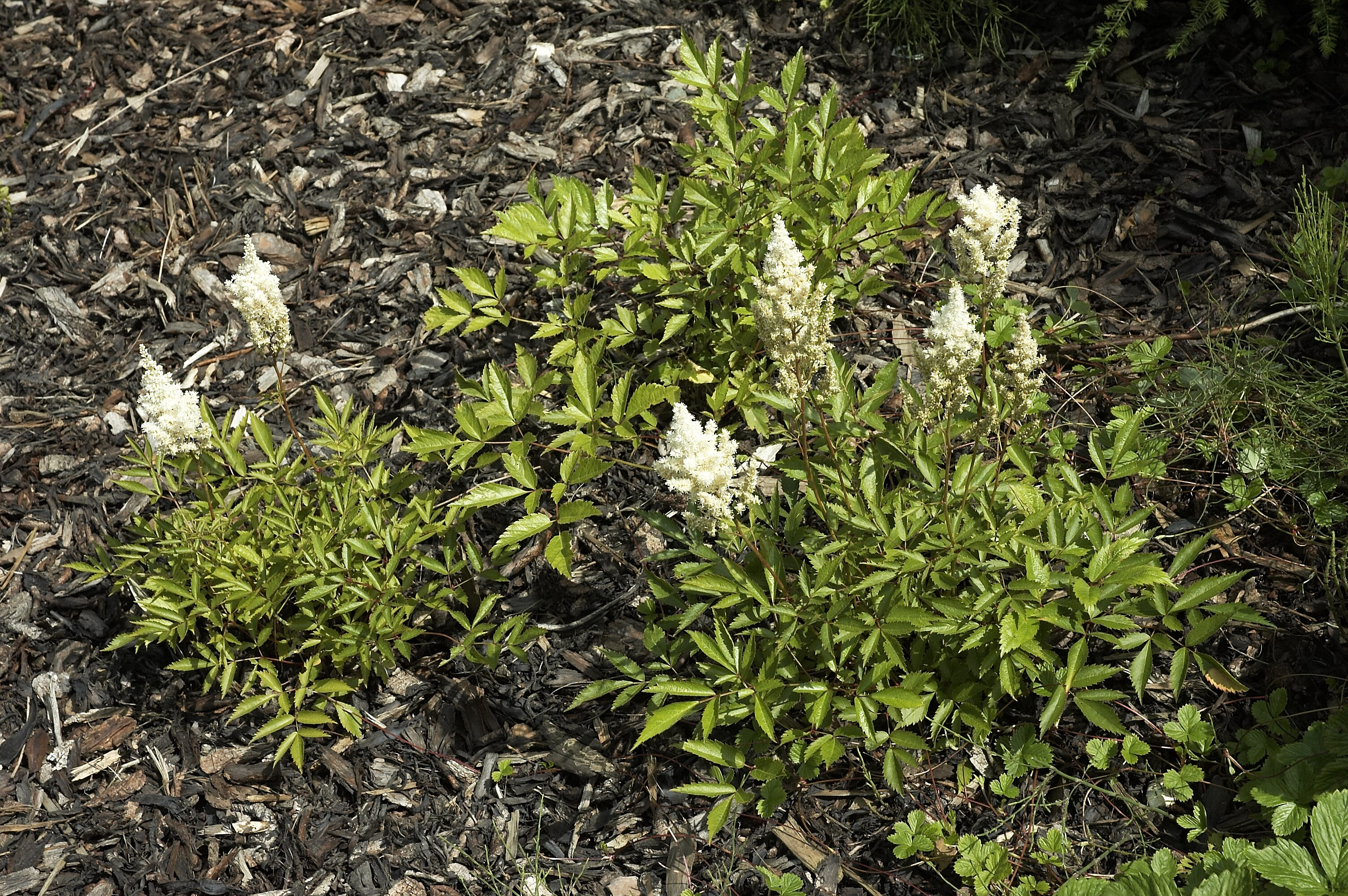 Astilbe Japonica 'Deutschland'. Picture taken in Belgium. Other photos of the same plant